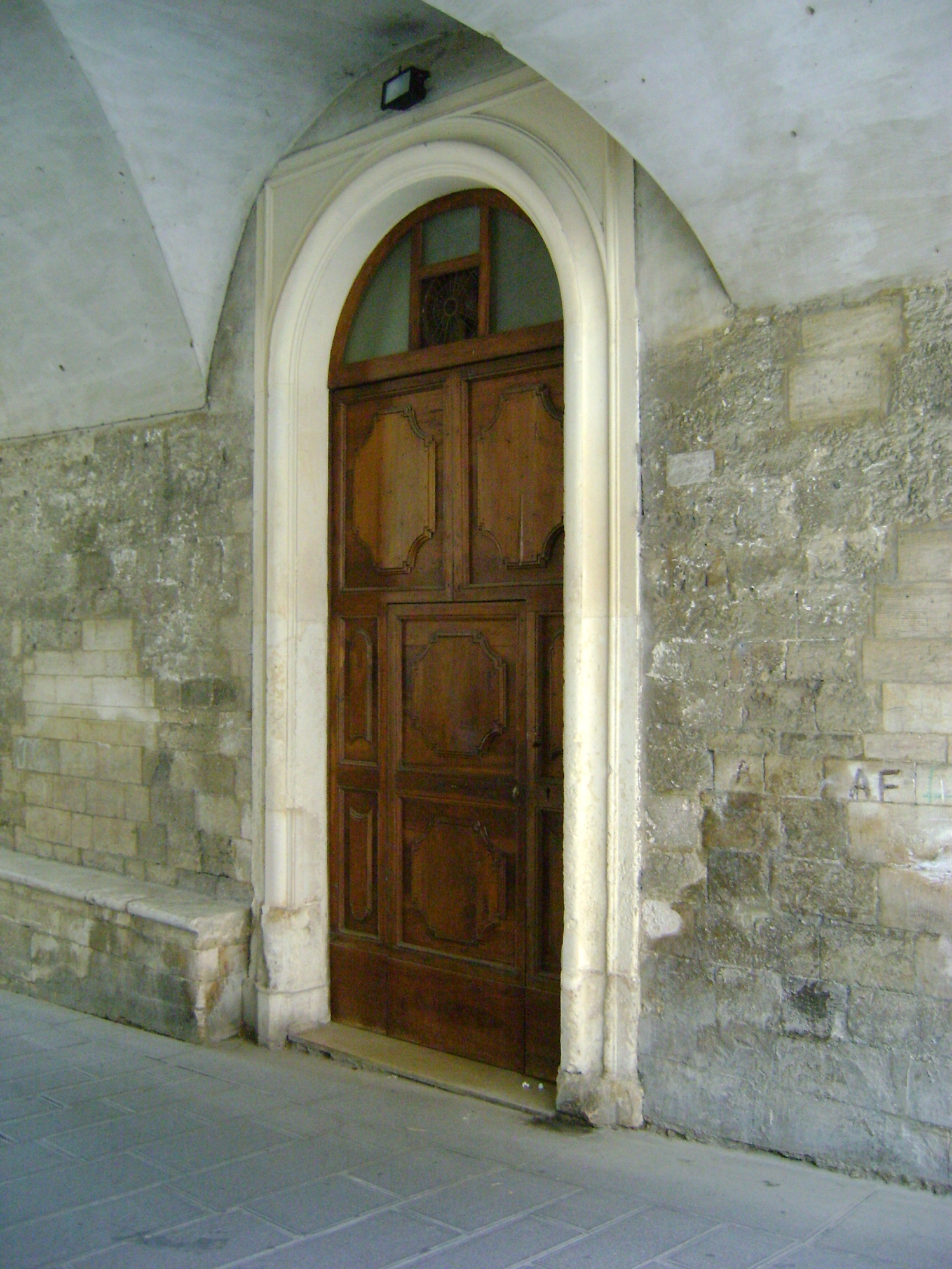 The portal of the church of San Rocco in Guardiagrele, in the province of Chieti, Abruzzo